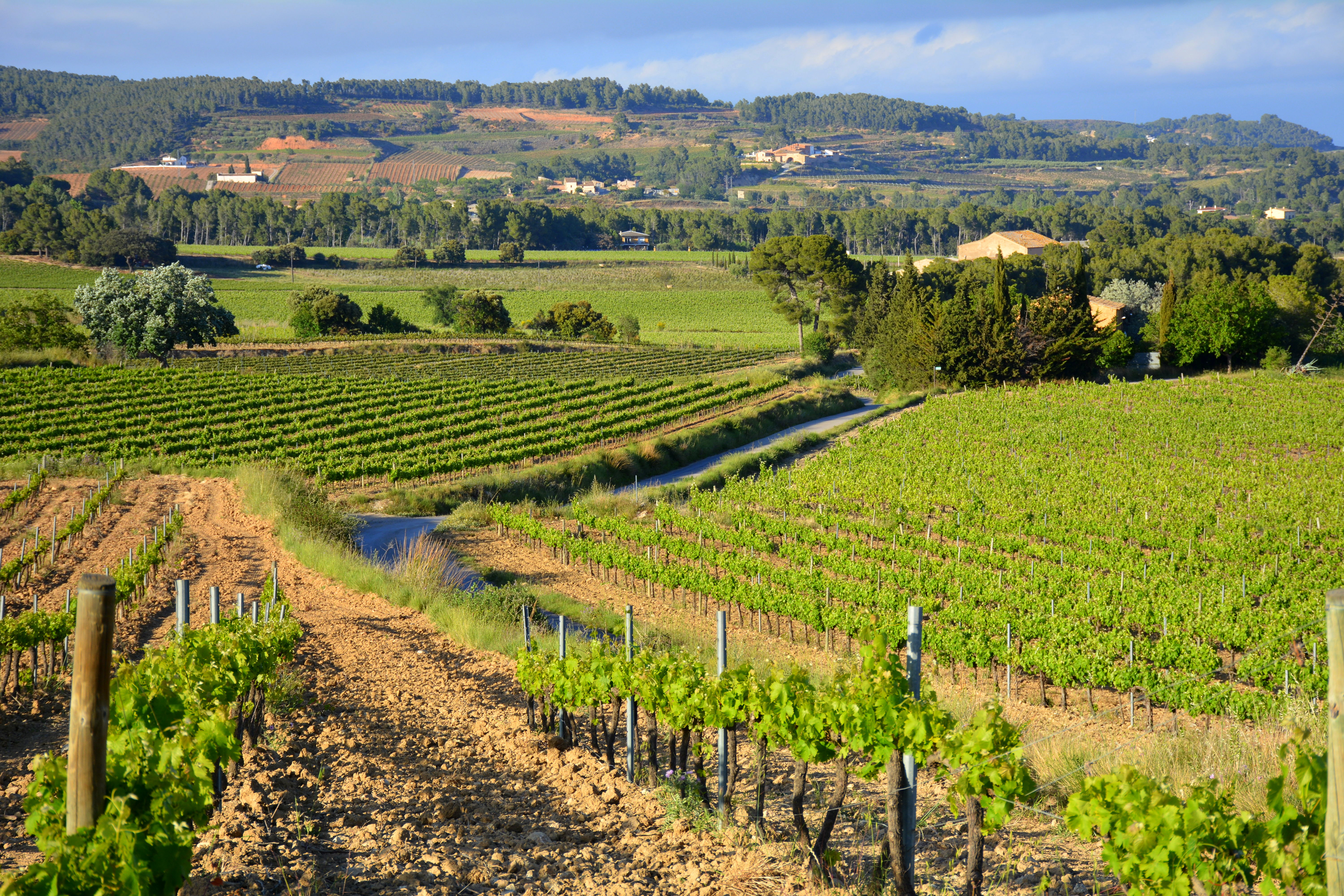 This is a photography of a Special Area of Conservation in Spain with the ID: Capçaleres del Foix. del Foix Natura2000 entry, del Foix EEA entry